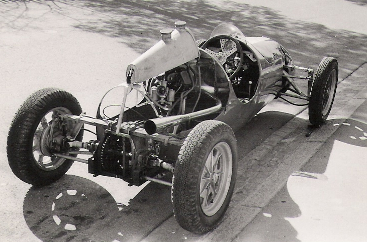 Cooper Norton Manx, Engine and rear axle detail